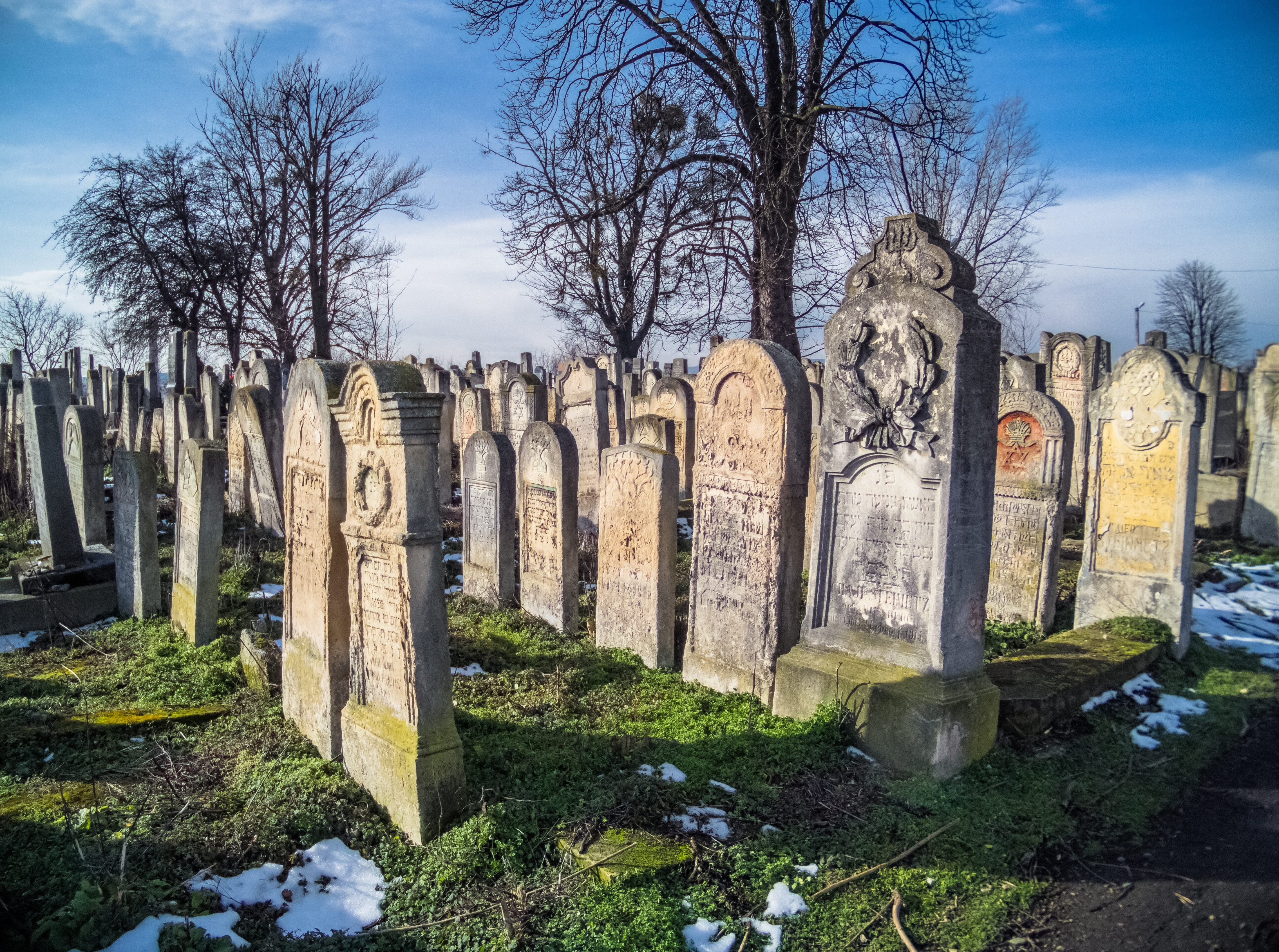 The Jewish cemetery of Chernivtsi, Ukraine.